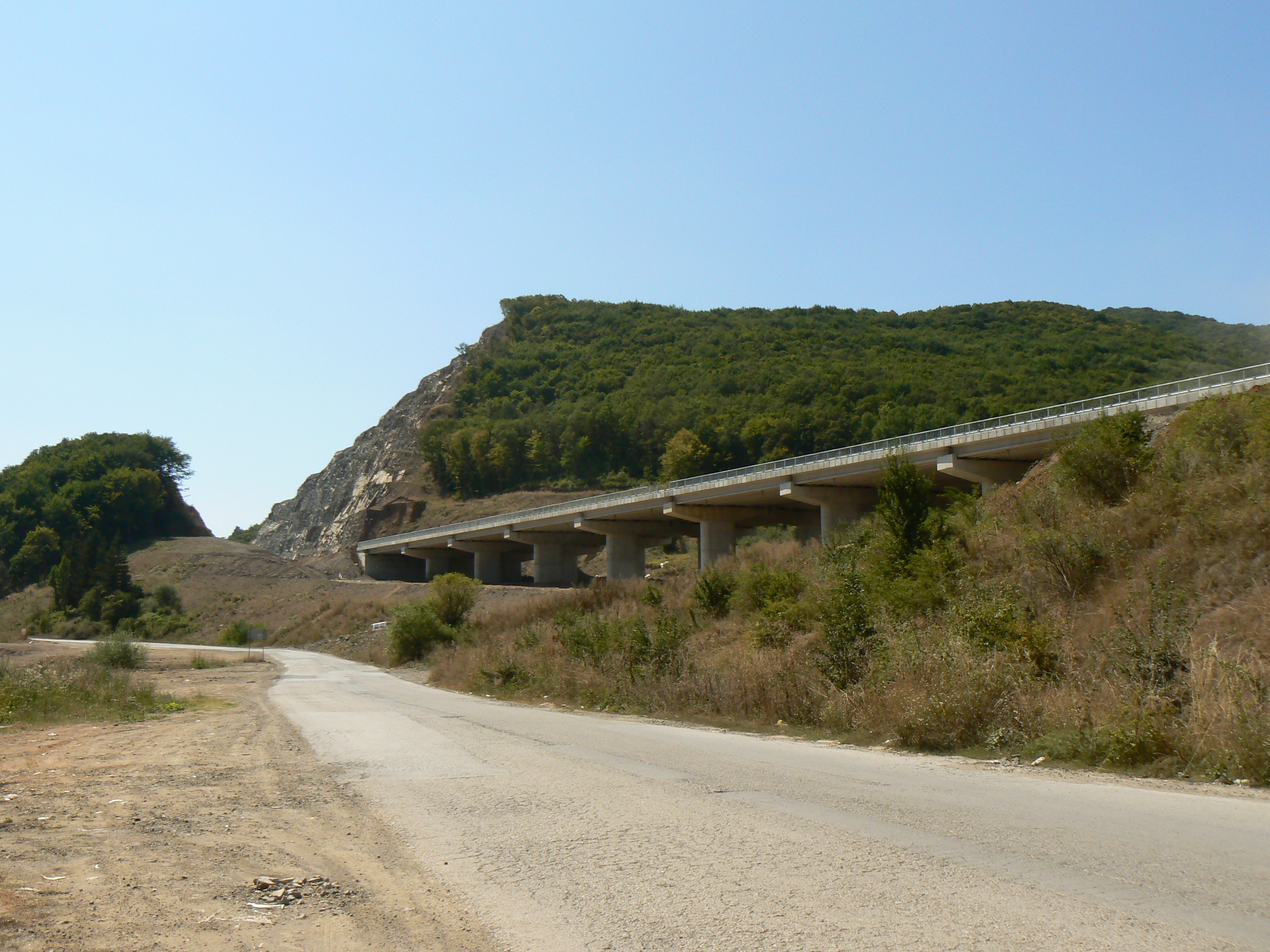 The construction of the Lyulin motorway through Buchino Passage, as of August 2010